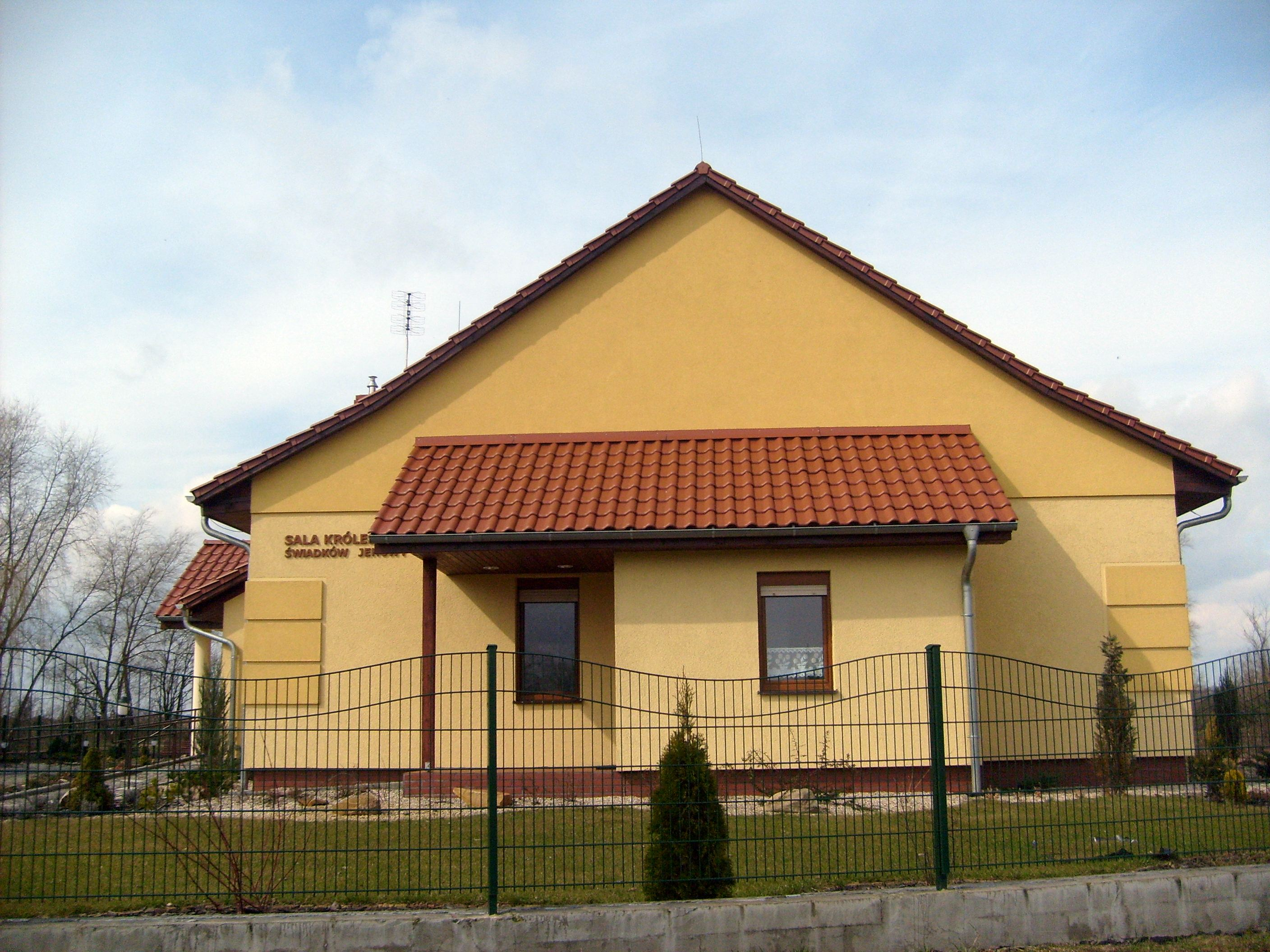 Kingdom Hall, Wolsztyn (Poland)